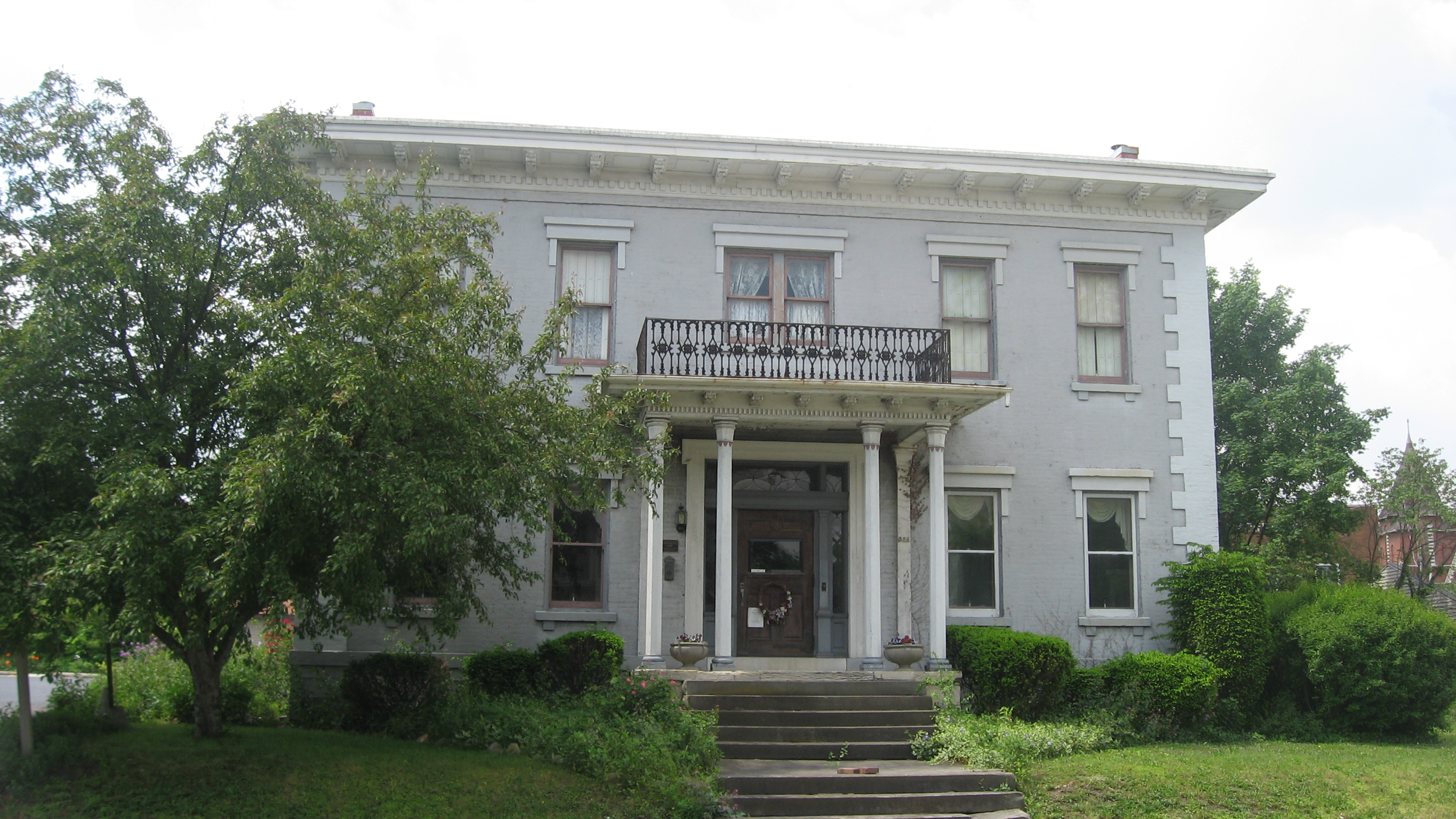 Front of the Samuel Purviance House, located at 326 S. Jefferson Street (U.S. Route 224/State Road 5) in Huntington, Indiana, United States. Built in 1859, it is listed on the National Register of Historic Places, and it is part of a Register-listed historic district, the Drover Town Historic District.